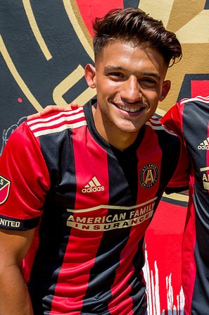 During the Delta and Atlanta United Wallscape Unveiling in Decatur, Georgia, Monday, August 21, 2017